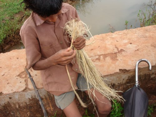 Cowherds in Indian state of Chhattisgarh prepare Bankh with the help of Butea monosperma roots and use it for different purposes.